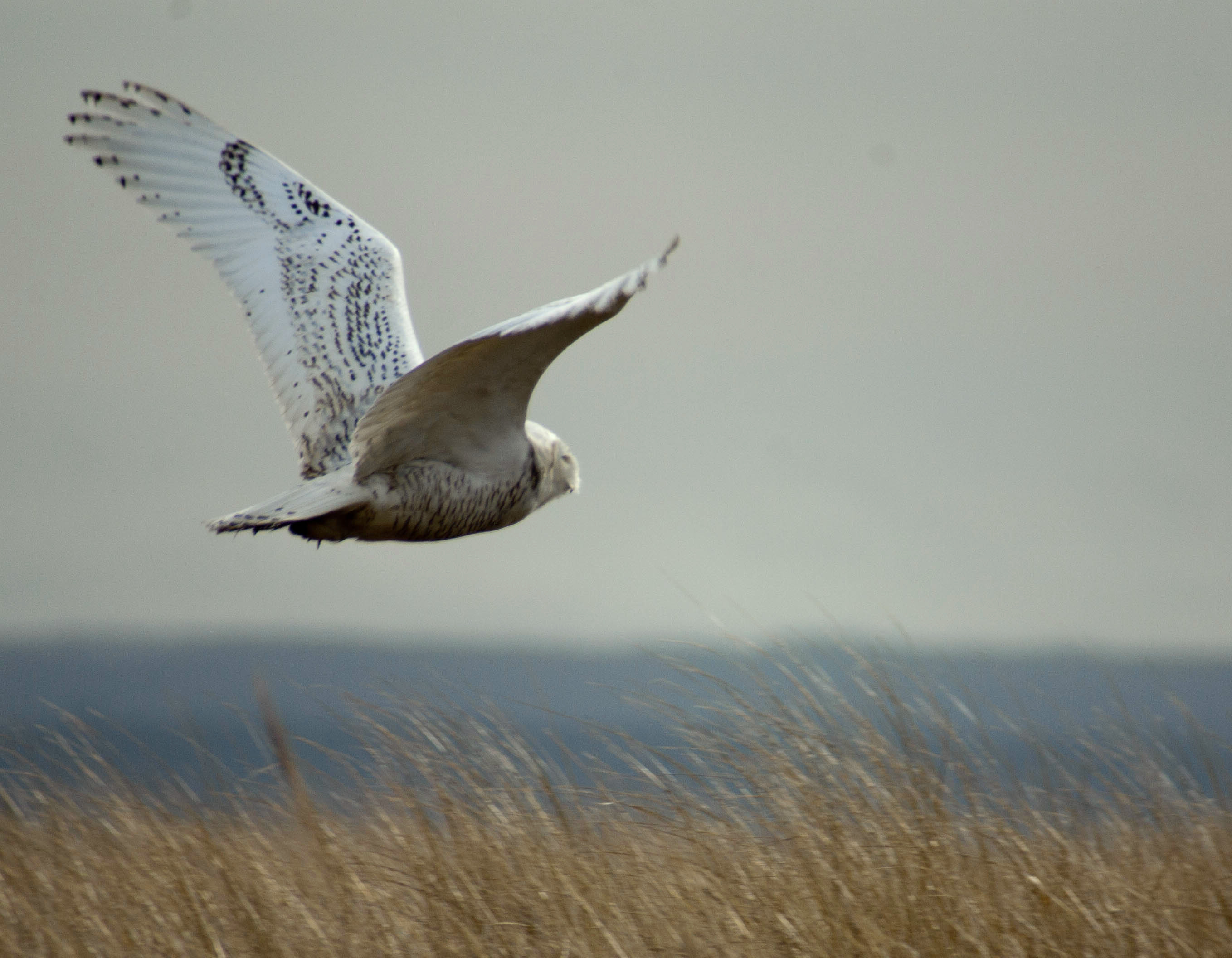 Snowy Owl Bubo scandiacus, Damon Point, Ocean Shores, Washington, USA.